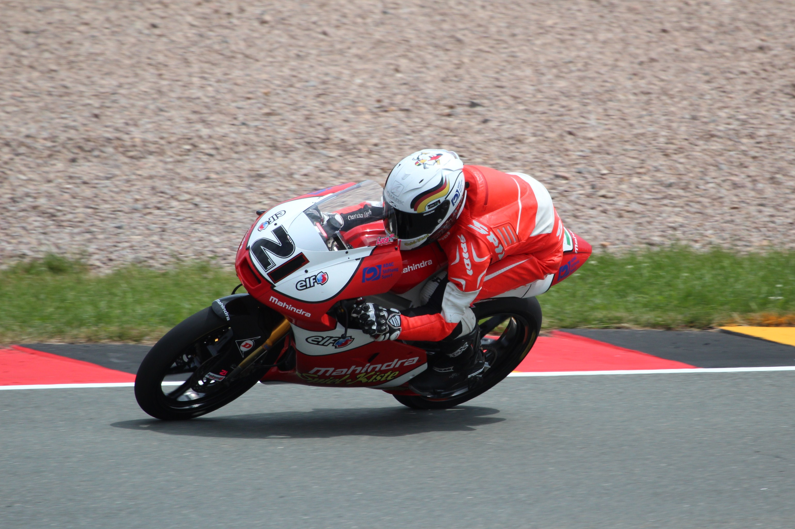 Luca Amato, as Wildcard-Pilot at Sachsenring in 2013